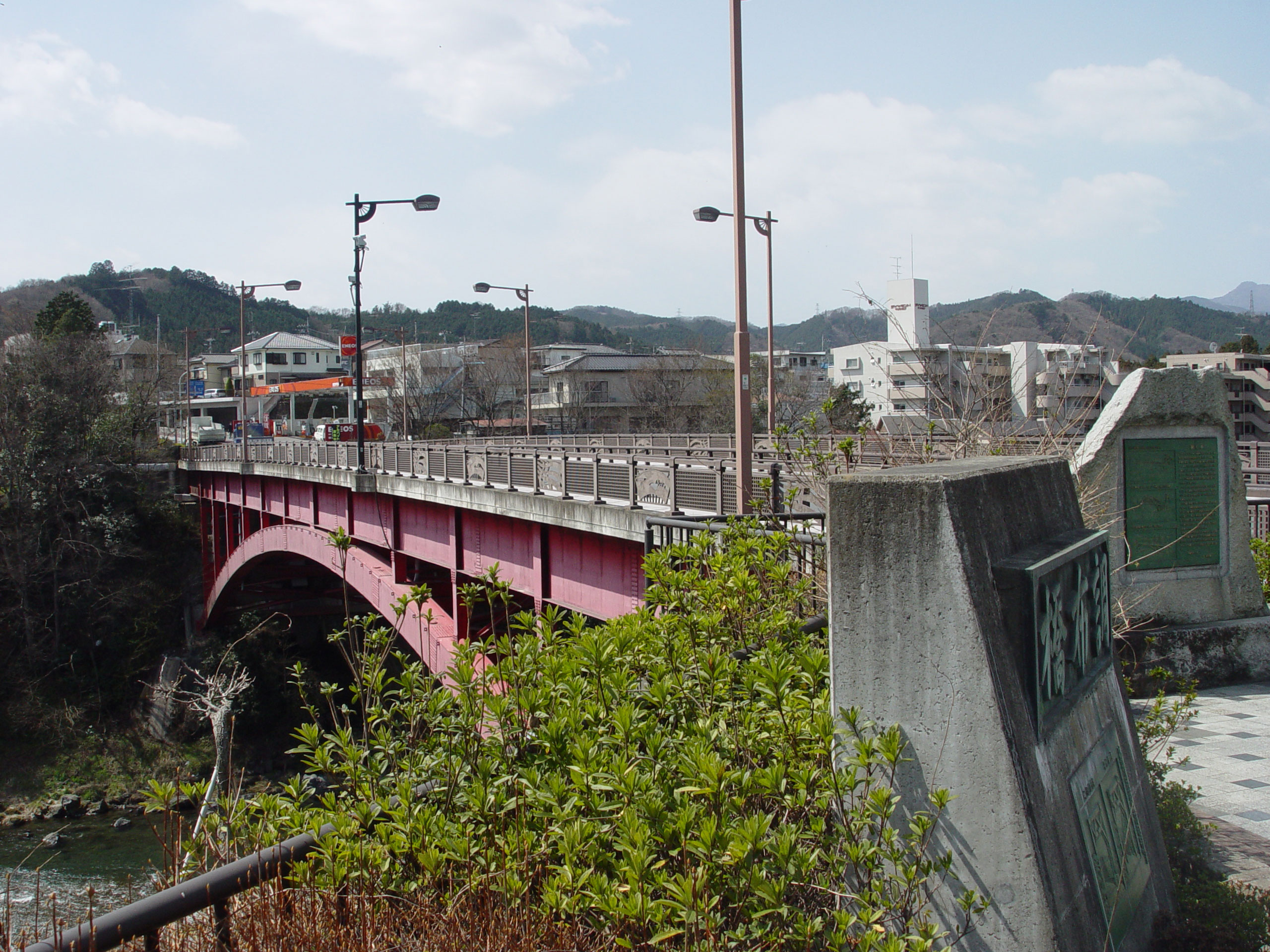 Chofu Bridge, Tokyo prefectural road route 31 ja: 調布橋、東京都道31号青梅あきる野線